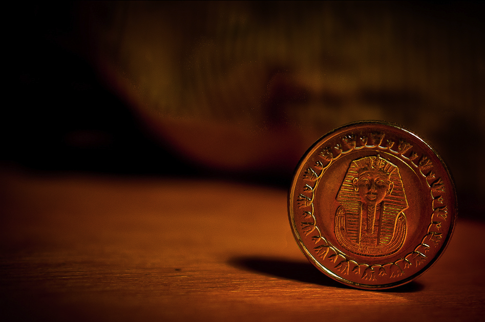 A photograph of an Egyption Pound coin.